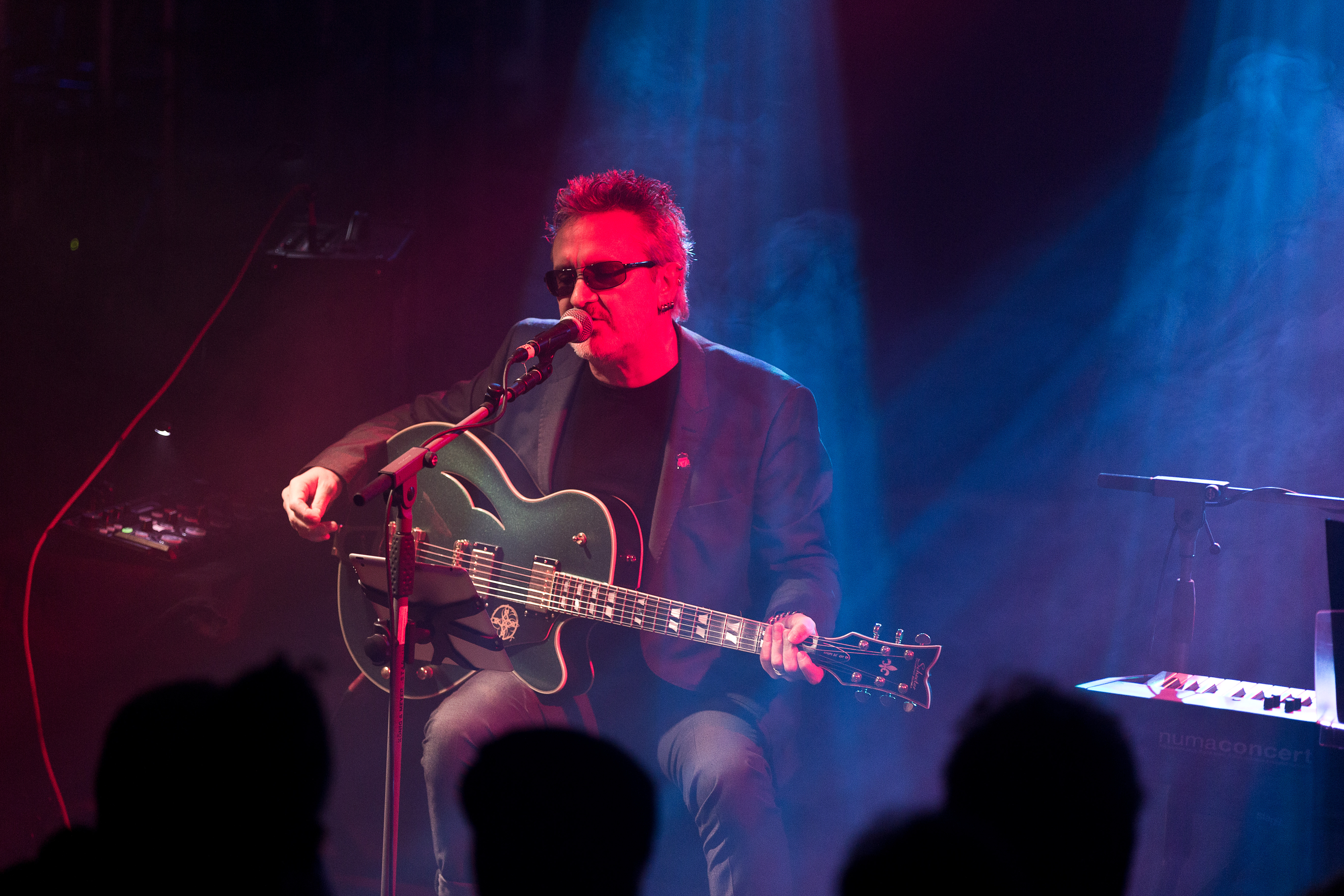 The British musician Wayne Hussey at the Kasematten-Festival 2016 in Langenstein/Germany.